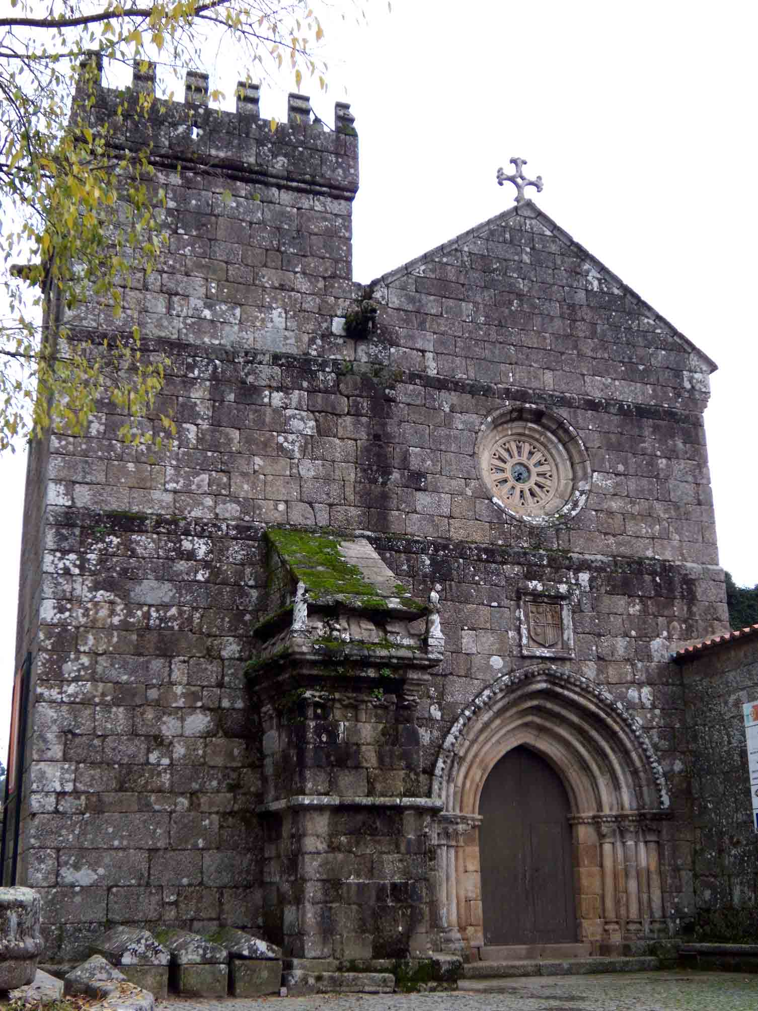 Church of Cete, Paredes - Portugal